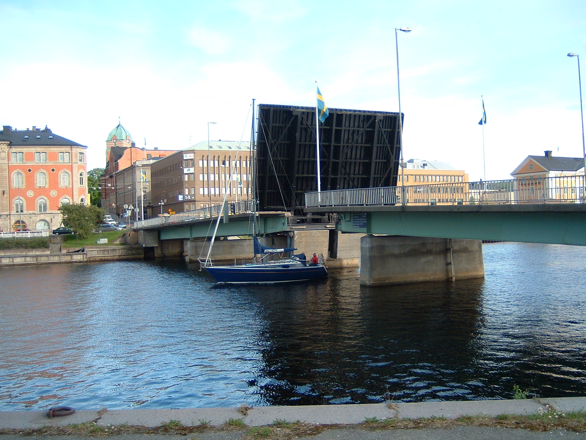 Nybron, a bridge in central Härnösand, Sweden, viewed from northwest